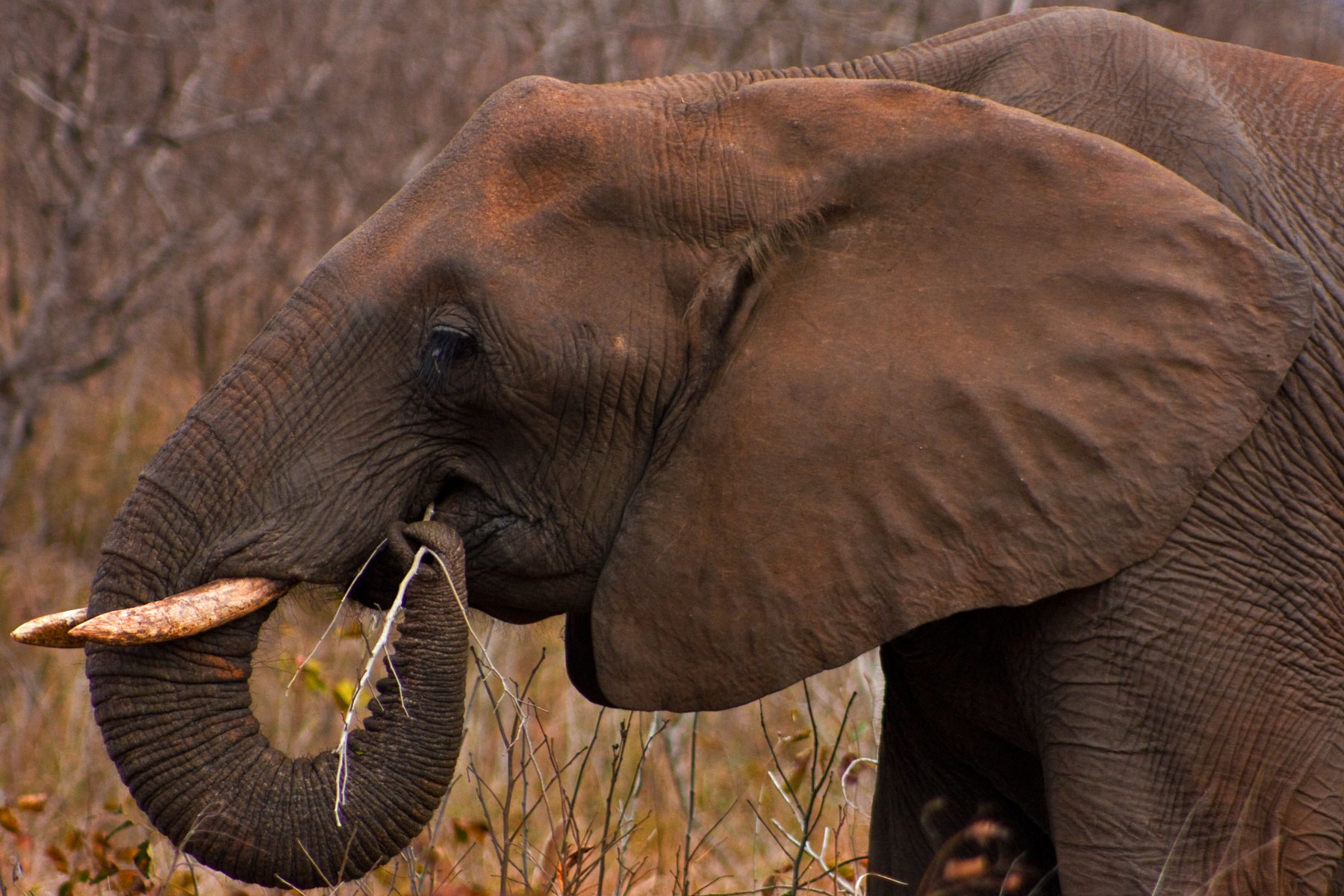 African elephant (loxodonta africana) grazing in Kruger National Park, South Africa.